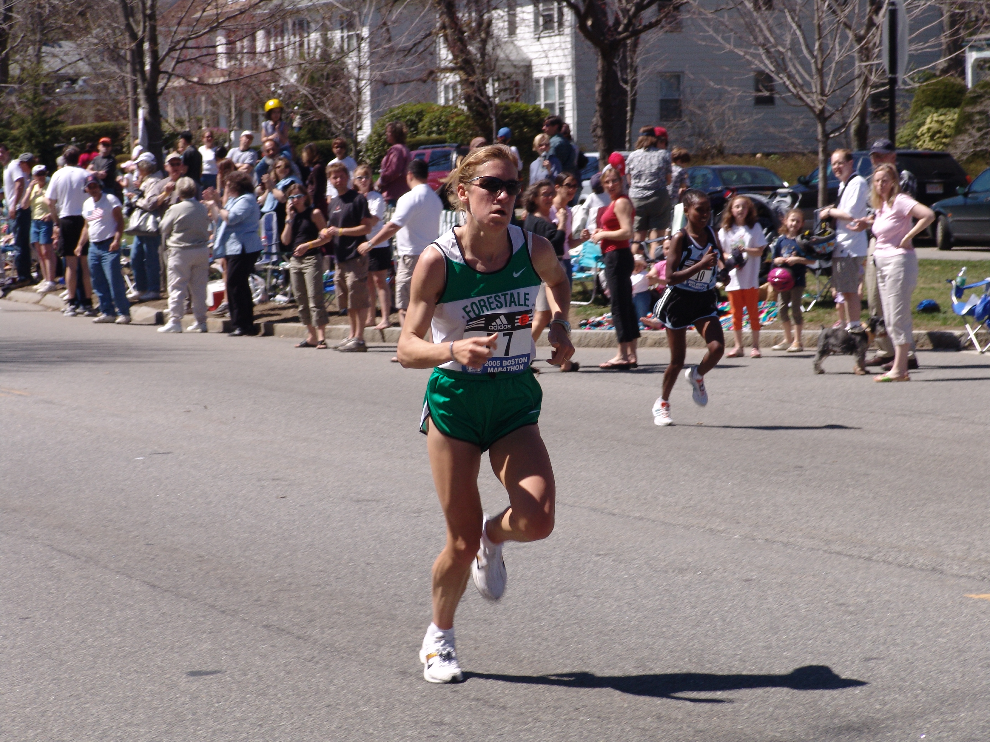 Putting on the after burners at Hearbreak Hill. Genovese caught up with the lead pack and finished 3rd.